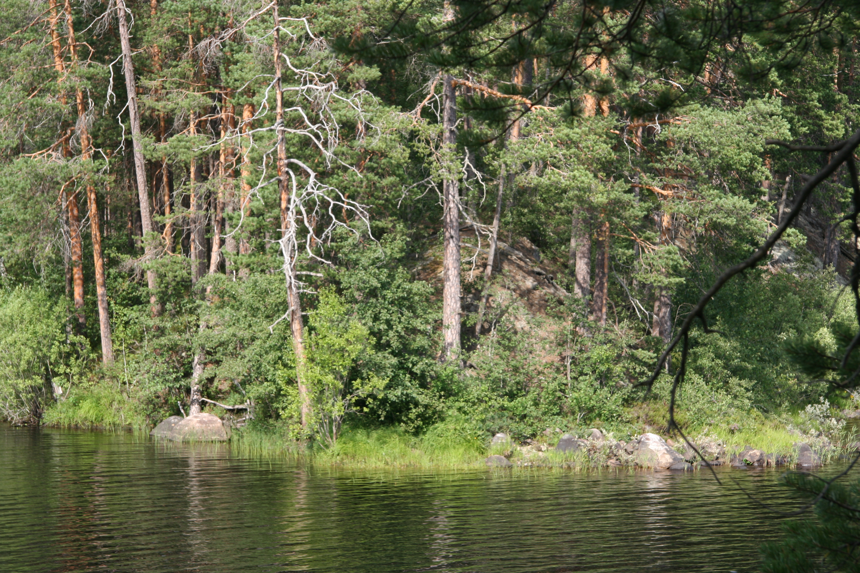 Steep shores and ancient pines in Petkeljärvi national park, Finland. Photo taken from Petraniemi.